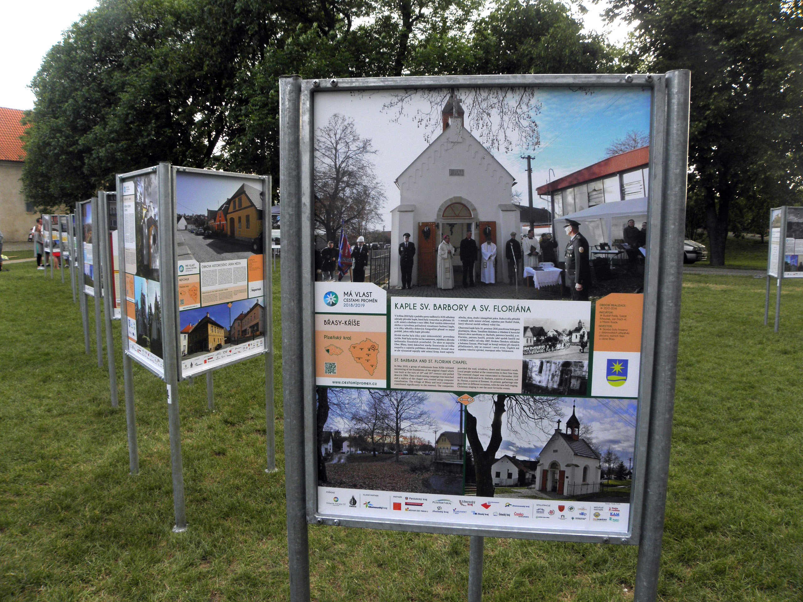 My Country - the Path of Changes - exhibition panels